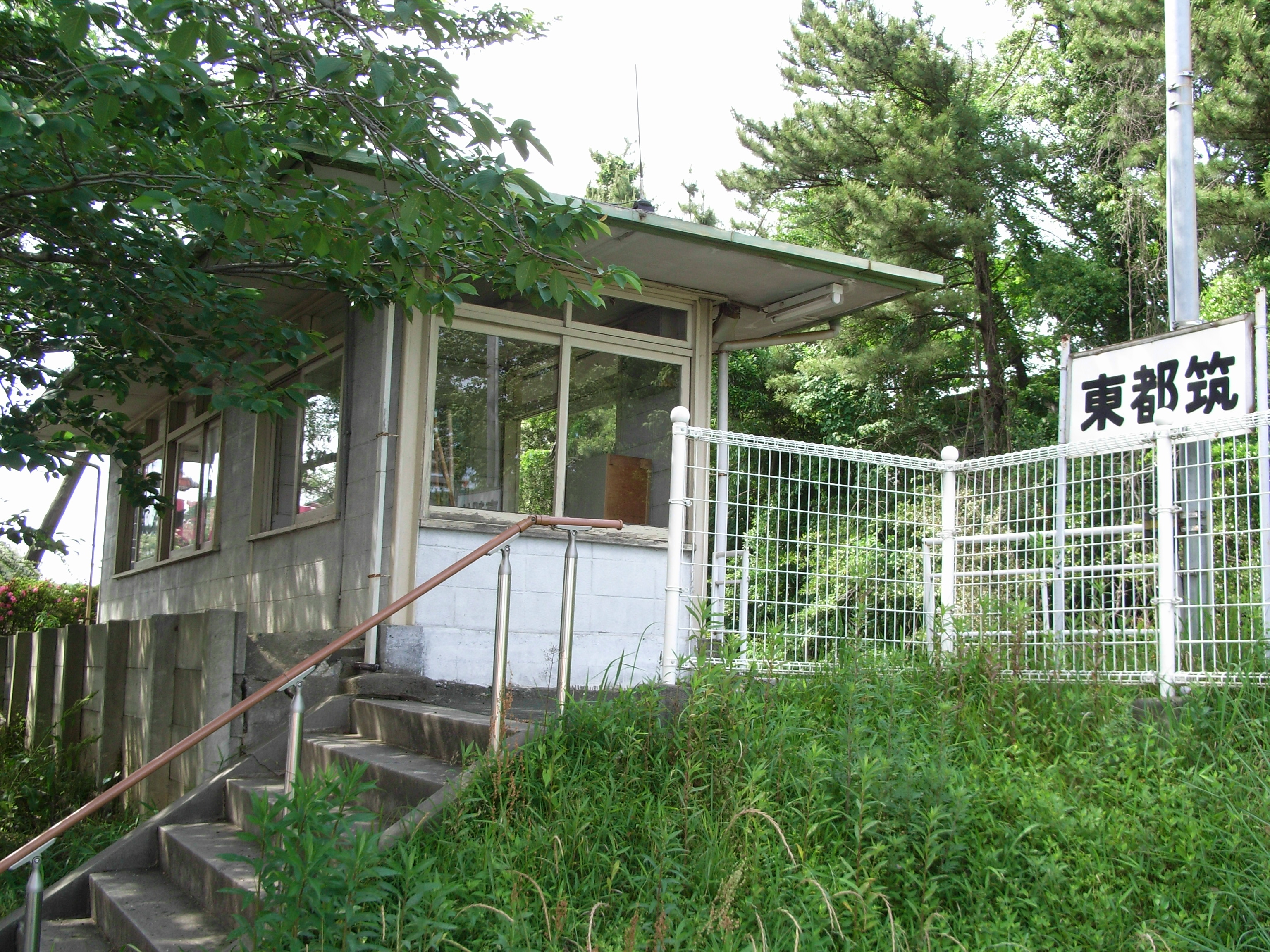 Higashi Tsuzuki Station